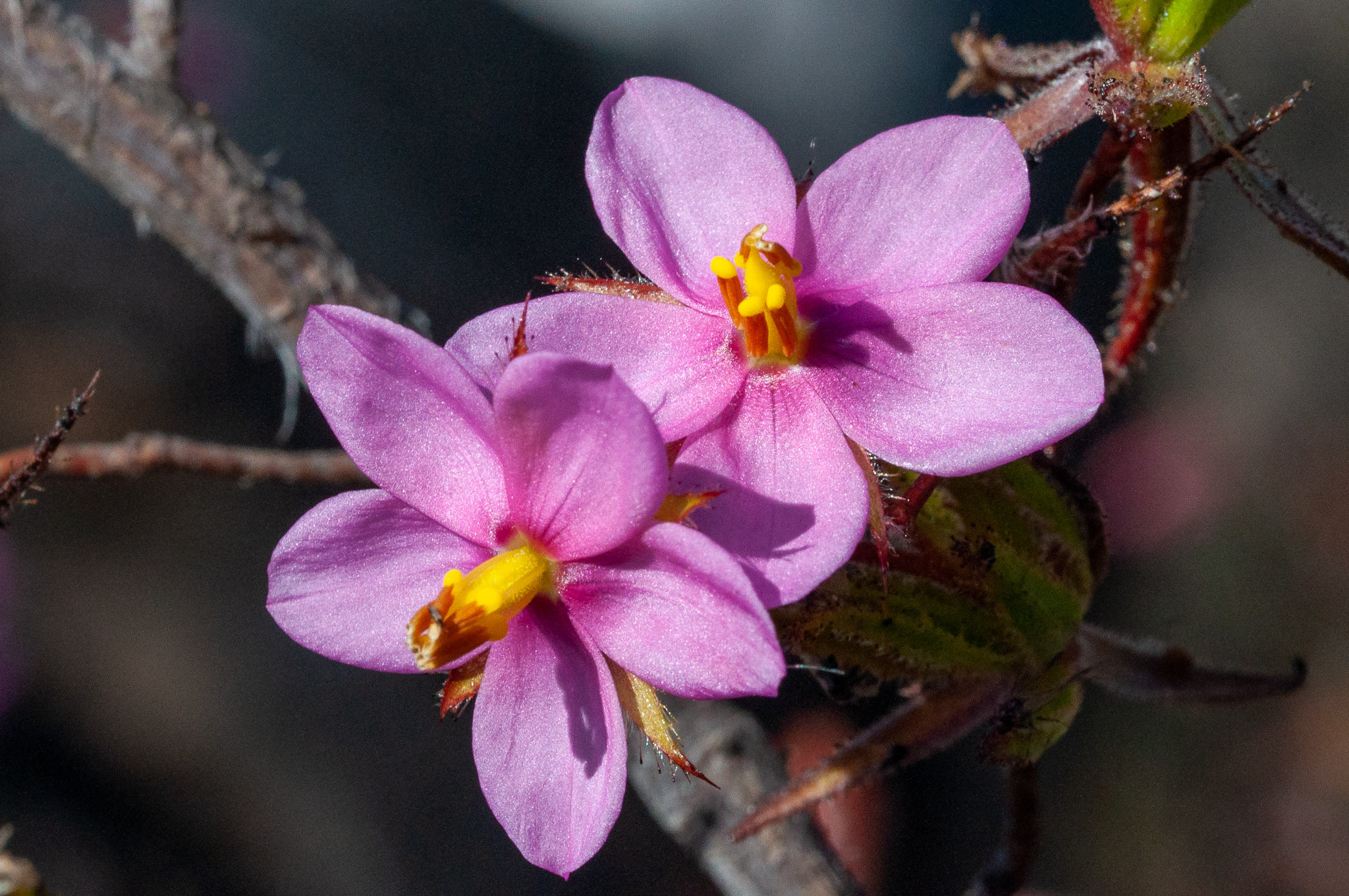 Northern Dewstick, Roridula dentata, photographed by Magriet B., on 24 September 2018, at Cedar plantation at Pietieskraalrivier, Krakadouw, Clanwilliam County, Western Cape province of South Africa